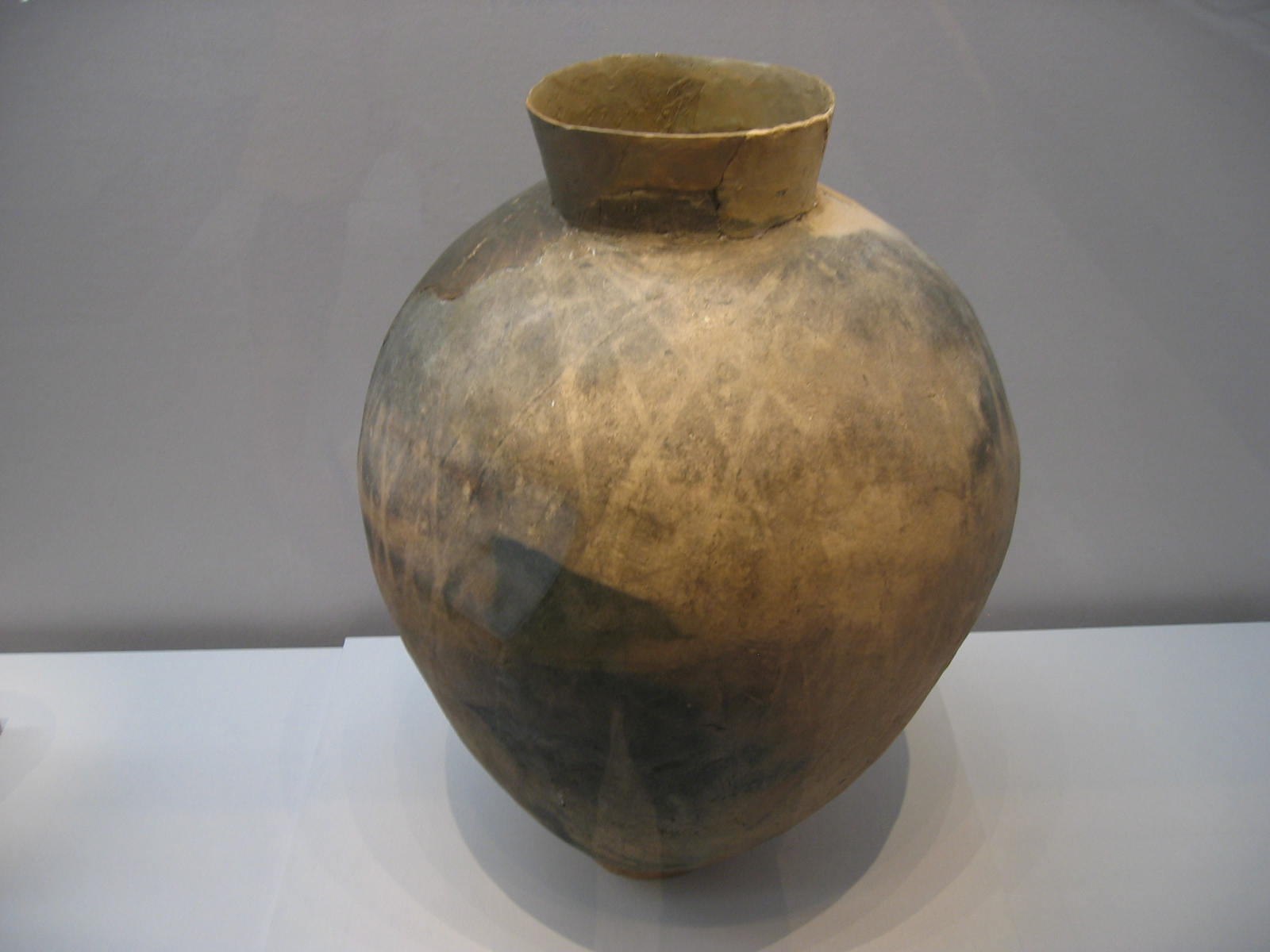 Pot from Bronze age, found in Jinju, Korea. Taken from the National Museum of Korea.